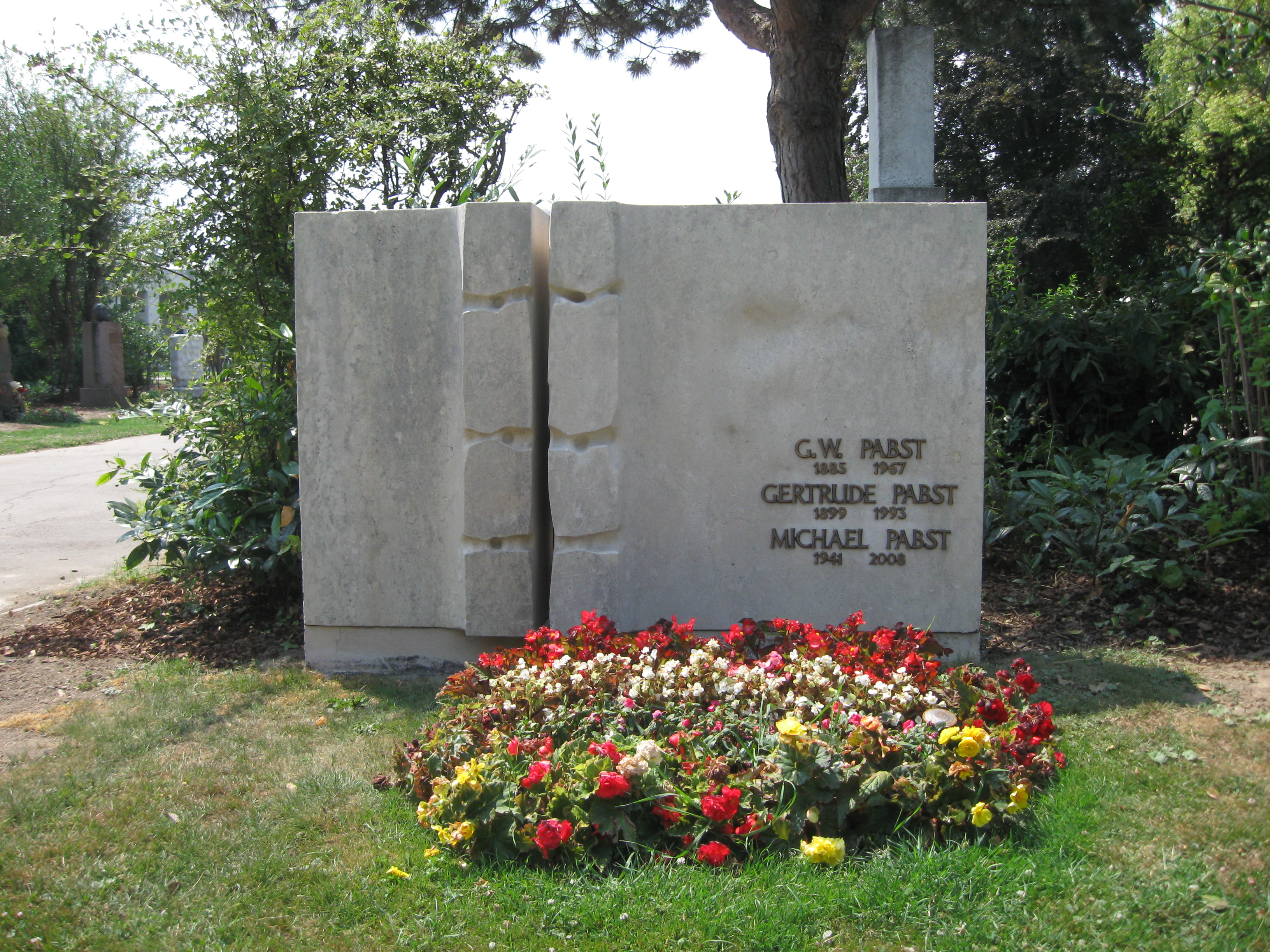 Grave of G.W. Pabst, his wife and son at the Zentralfriedhof in Vienna, group 32 C